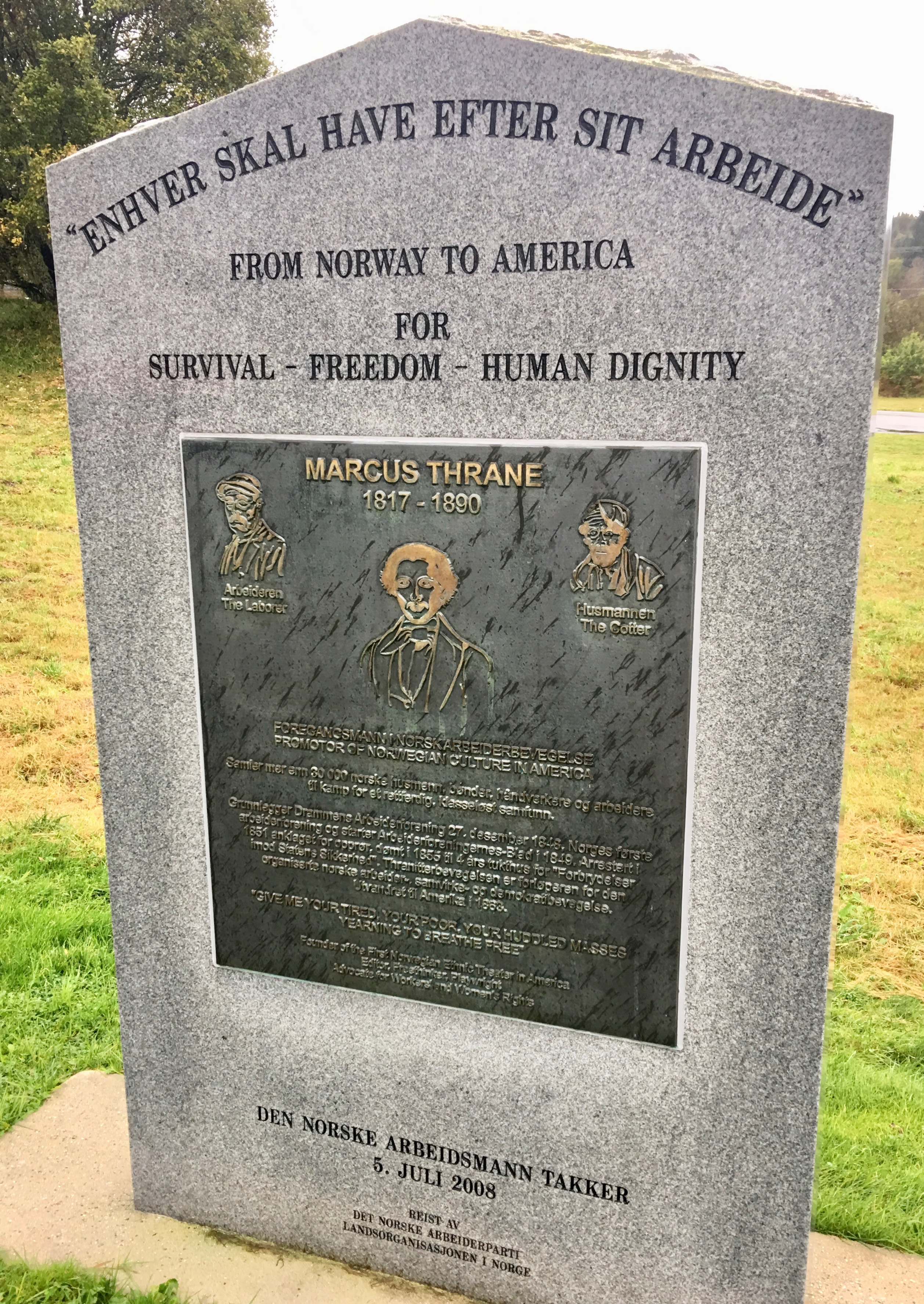 Memorial stone by "Emigrantkyrkja/Emigrantkirken" (former Brampton Lutheran Church, North Dakota) at "Vestnorsk utvandringssenter/utvandrarsenter" (Western Norway Emigration Center) in Radøy, Hordaland, Norway: "Marcus Thrane". Photo 2017-10-03